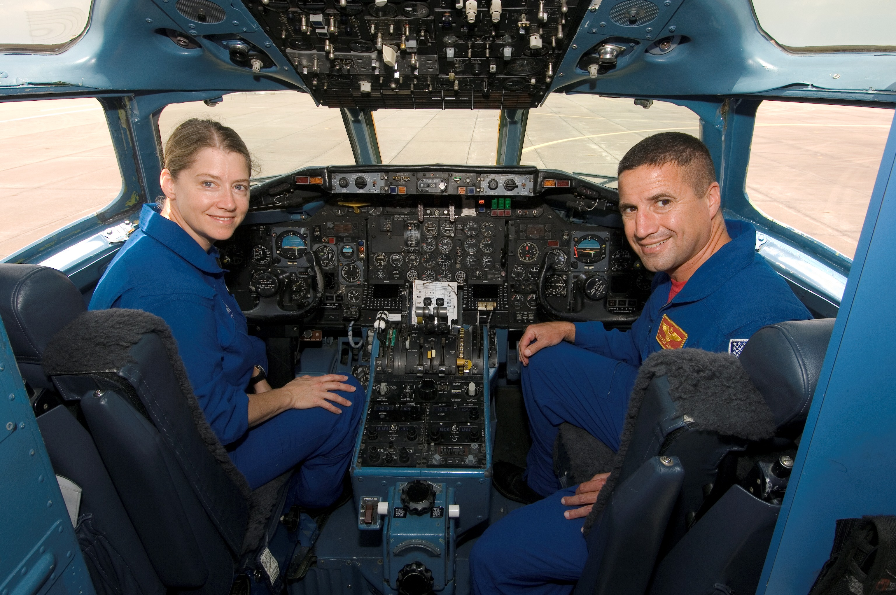 Astronauts Pamela A. Melroy, STS-120 commander, and George D. Zamka, pilot, pose for a photo in the cockpit of a NASA DC-9 aircraft during a Heavy Aircraft Training (HAT) session.